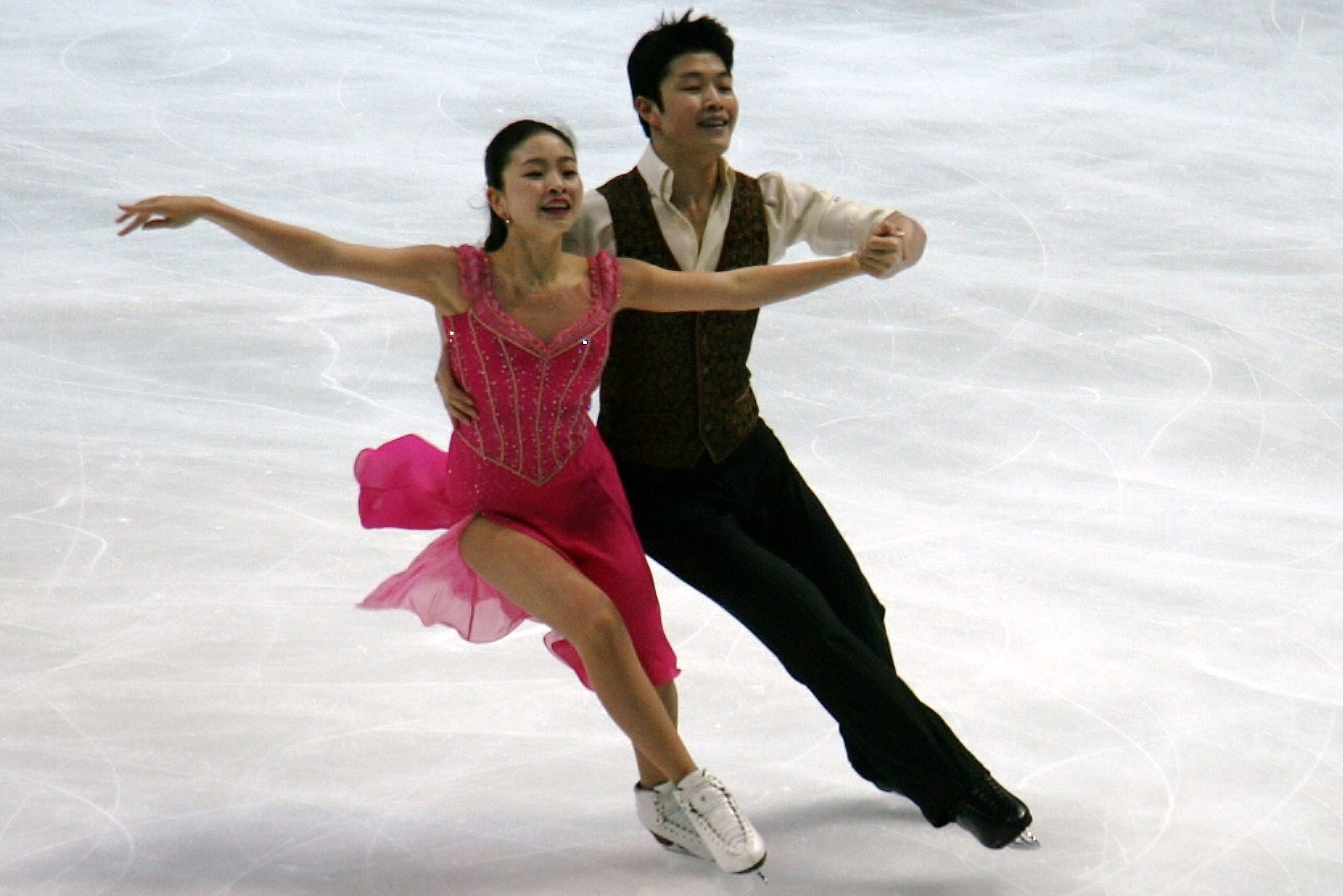 Maia Shibutani and Alex Shibutani at the 2011 World Figure Skating Championships